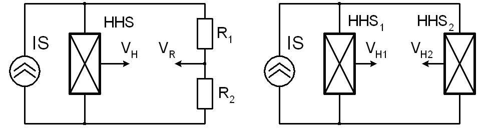 A half bridge circuit (shown on the left) and a bridge circuit (shown on the right) of forming signals in sensors based on splitted Hall structures (HHS, HHS1, HHS2 are SHS, IS is the feed current source, VH, VR, VH1, VH2 are output voltages)